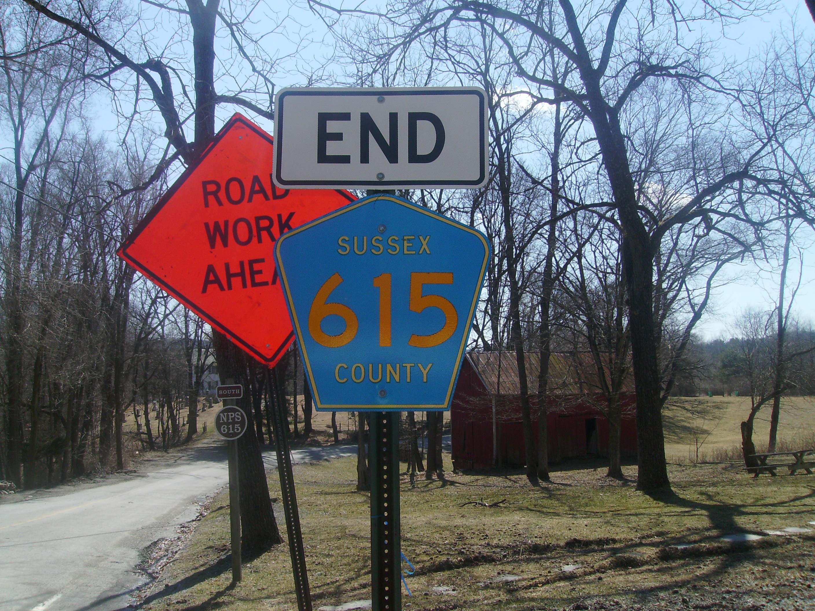 Sussex County Route 615's western terminus.